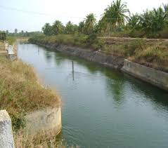 water structure